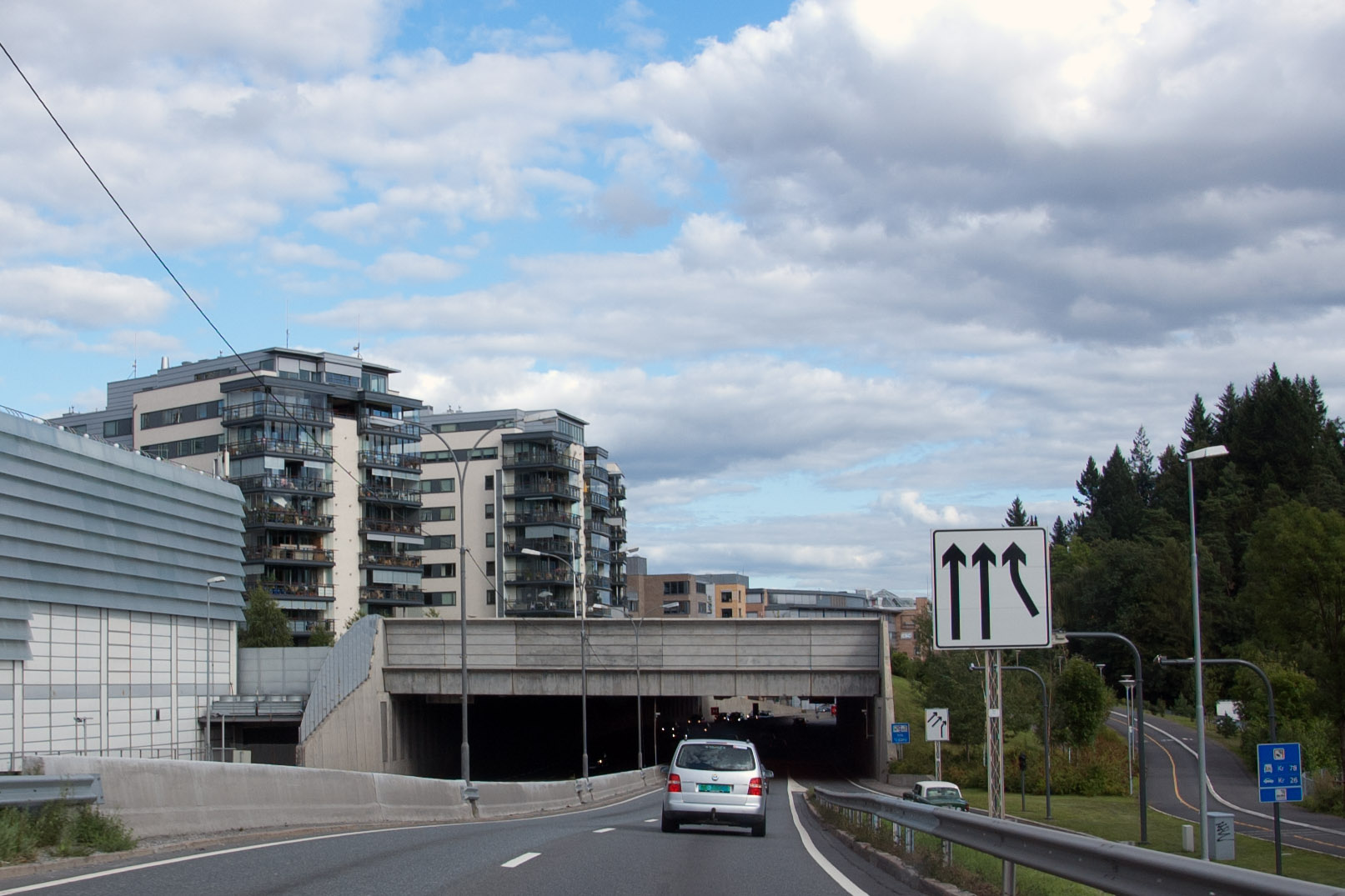 The Sjølyst tunnel, E18 in Oslo, Norway.